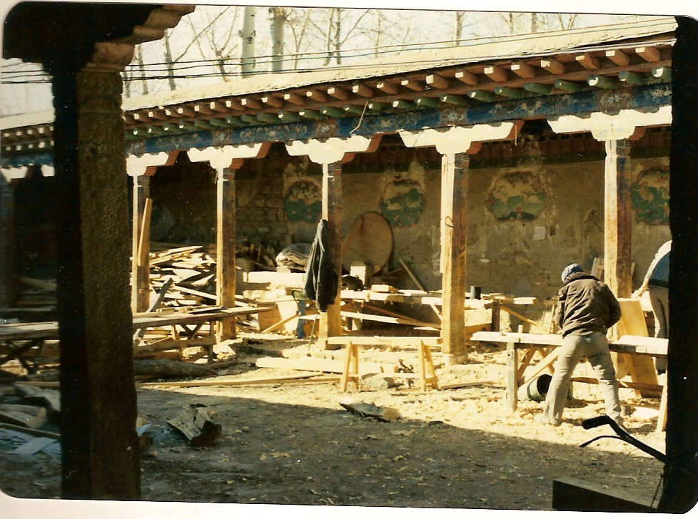 The Dalai Lama´s Stables in the Norbu Lingka (summer palace) in Lhasa, Tibet